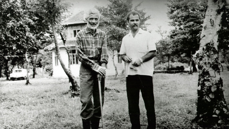 Jalal Al-e-Ahmad